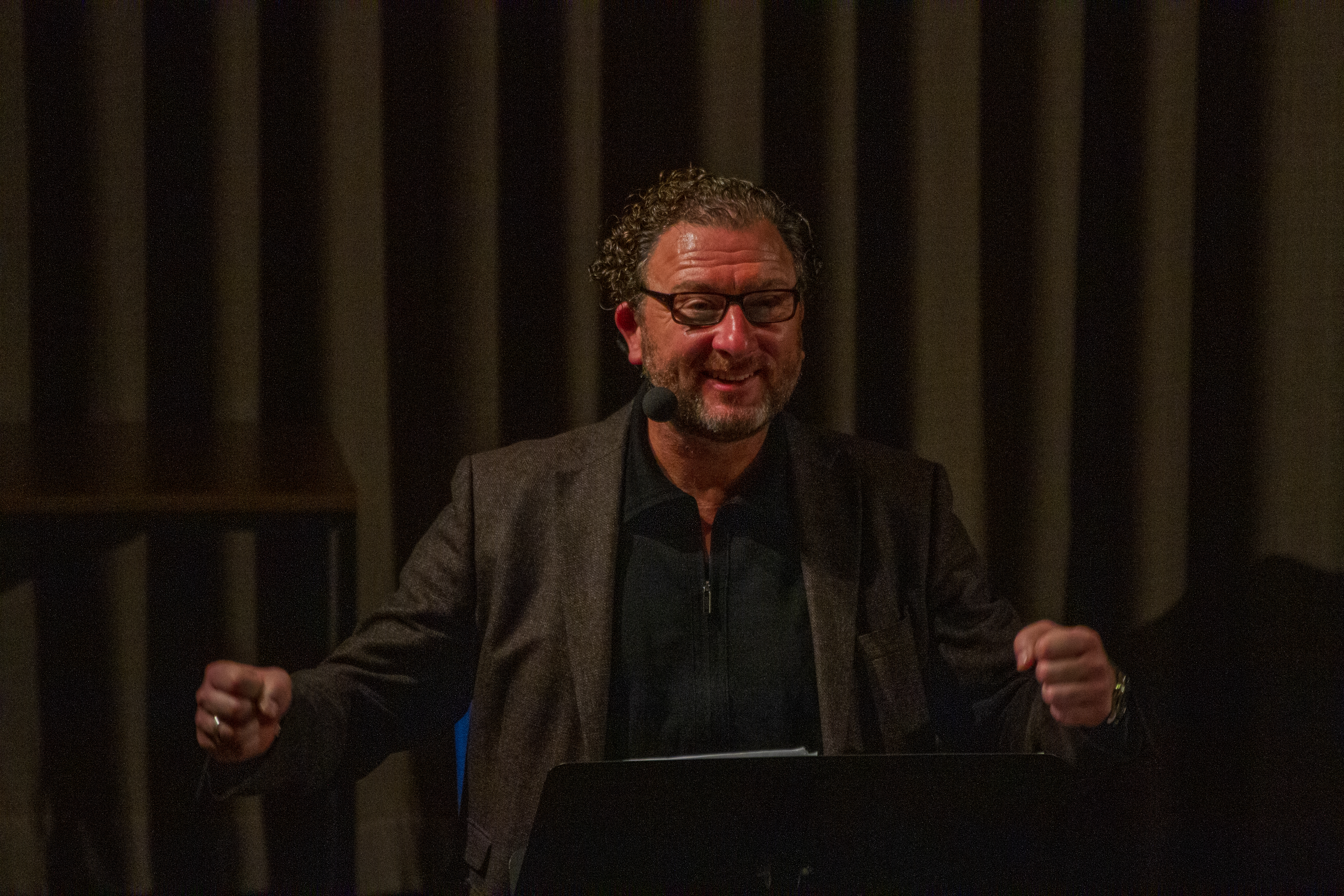 Actor and narrator Stefan Wilkening at 20. Darmstädter Gitarrentage.